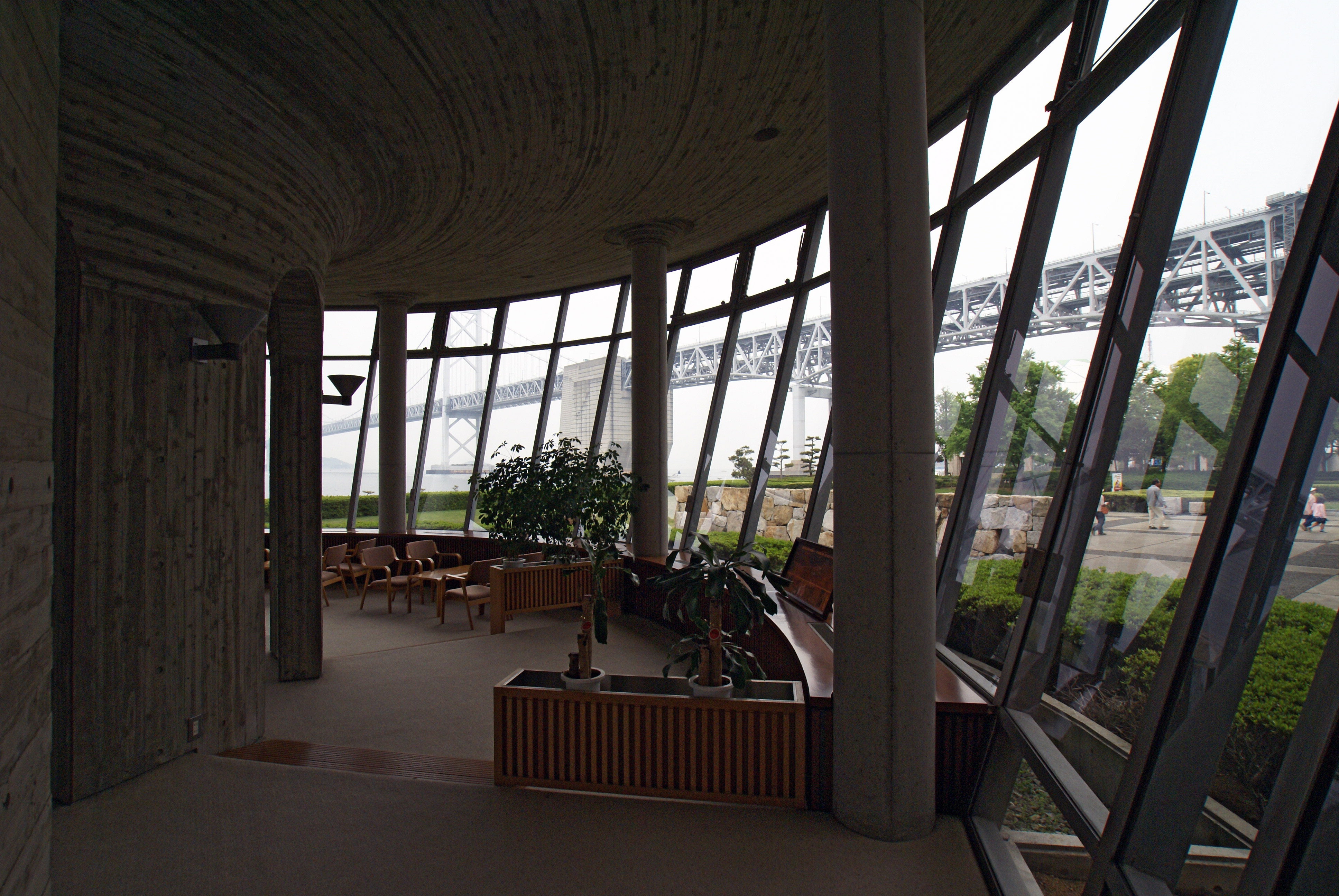 Great Seto Bridge Memorial Hall in Sakaide, Kagawa prefecture, Japan